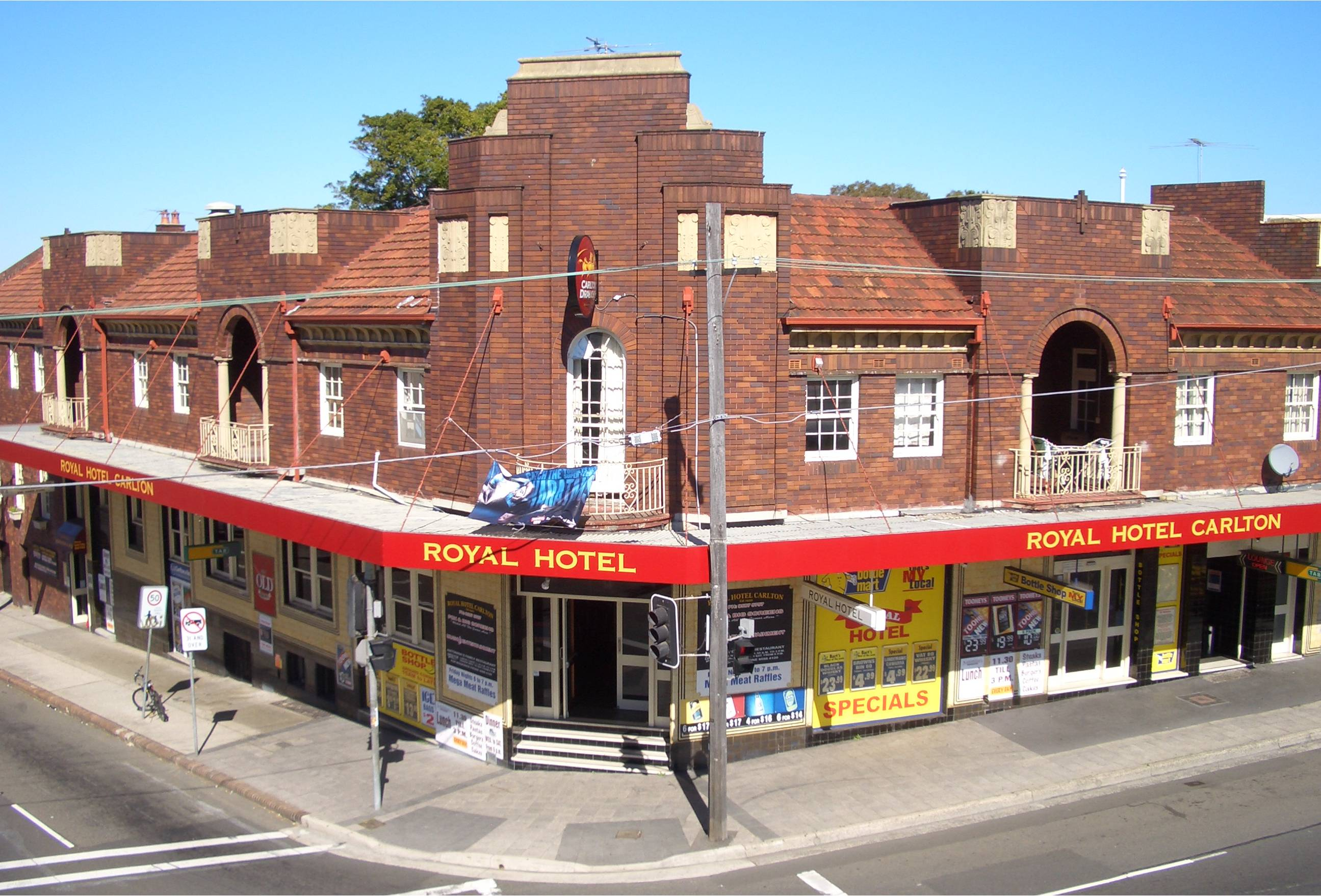 Carlton pub, Sydney, Australia. I took the photo on 18th June 2006.J Bar 02:56, 29 August 2006 (UTC)